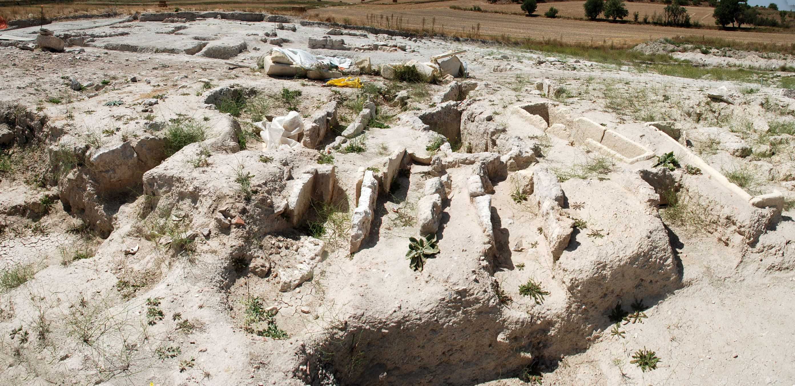 Archaeological site of La Poza in Baltanás (Palencia, Castile and León).